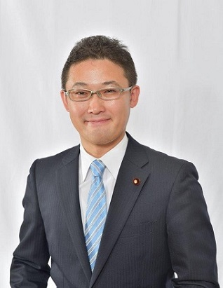 Fujiwara Takashi was inaugurated as Parliamentary Vice-Minister of Cabinet Office and Parliamentary Vice-Minister for Reconstruction on September, 2019